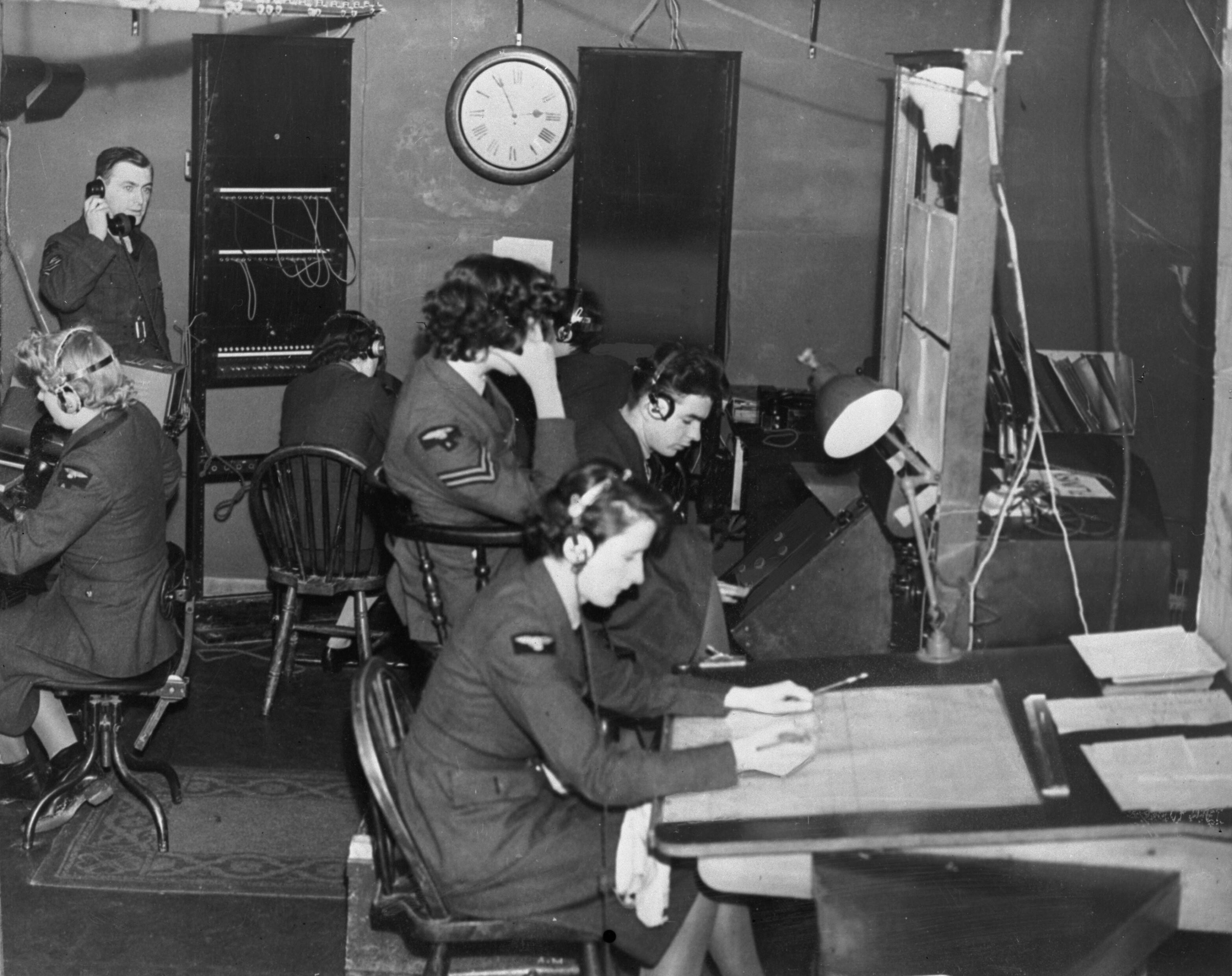 Royal Air Force Radar, 1939-1945. Chain Home: airmen and WAAF operators at work in the wooden Receiver hut at Ventnor CH, Isle of Wight, during the Battle of Britain.